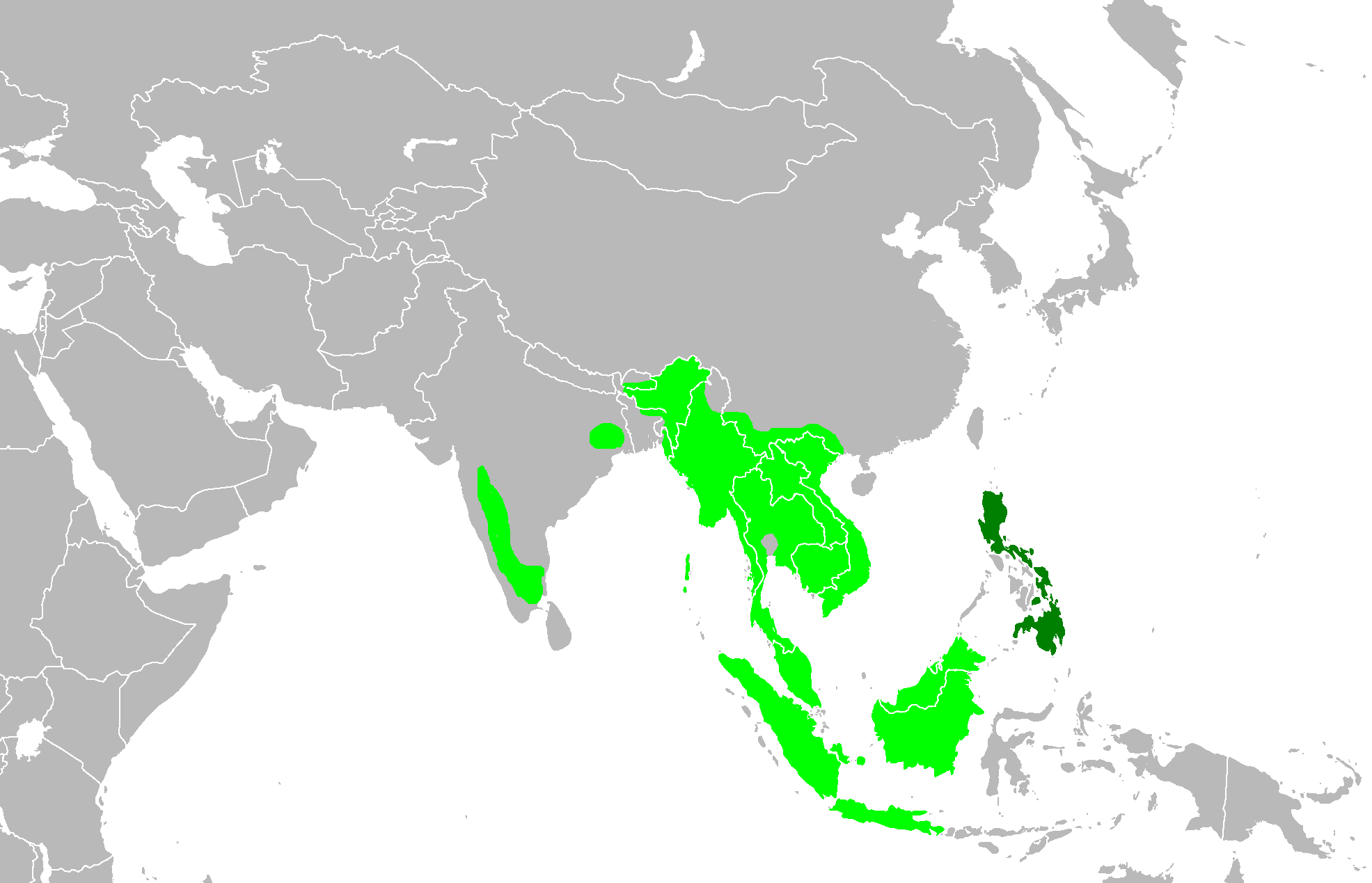 Distribution of the genus Irena (Irenidae): Irena puella light green, Irena cyanogaster dark green